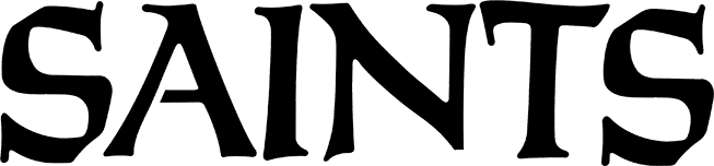 New Orleans Saints' wordmark used since 1985.